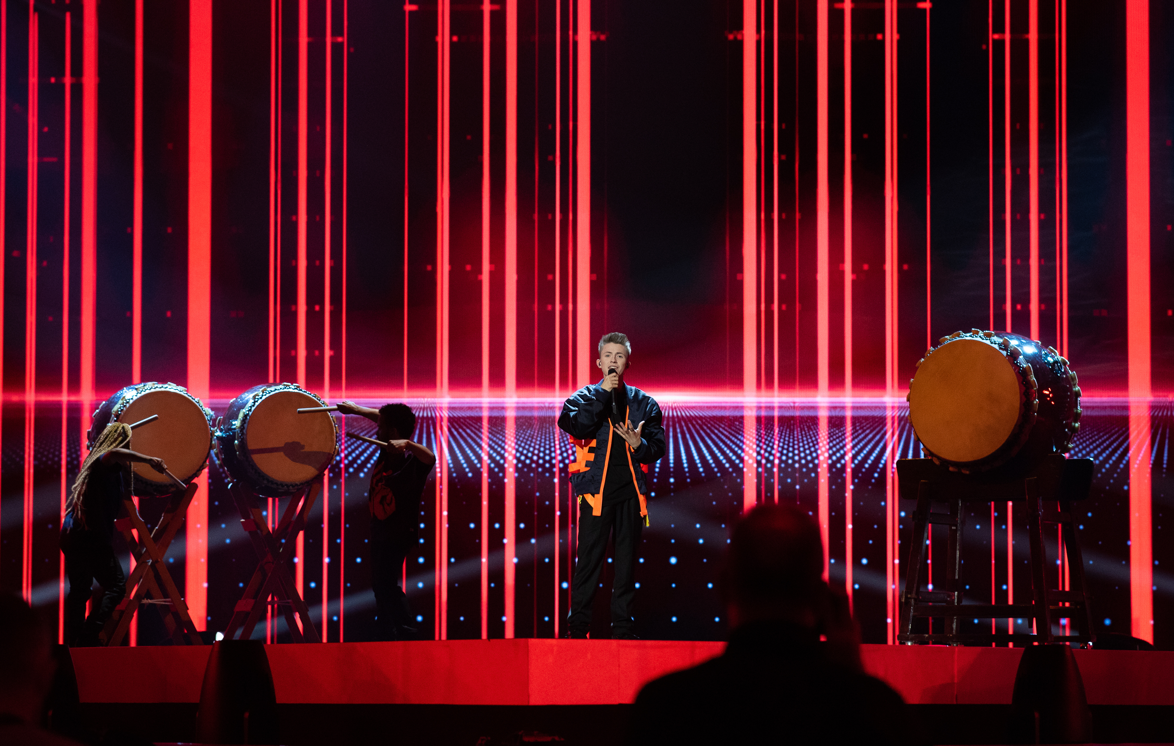 Eliot representing Belgium with the song "Wake Up" during a rehearsal before the first semi-final of the Eurovision Song Contest 2019 in Tel-Aviv.